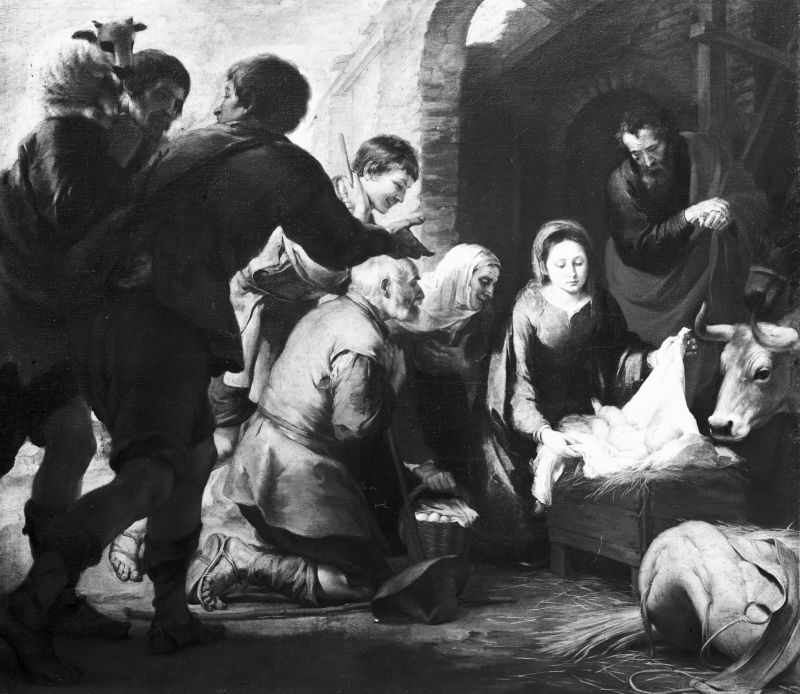 'The Adoration of the Shepherds', by Murillo, painted ca. 1650 - 1660. The painting was destroyed or disappeared in Berlin in May 1945, in the Friedrichshain flak tower fire. - Dimensions: 170 x 196 cm - Oil on canvas